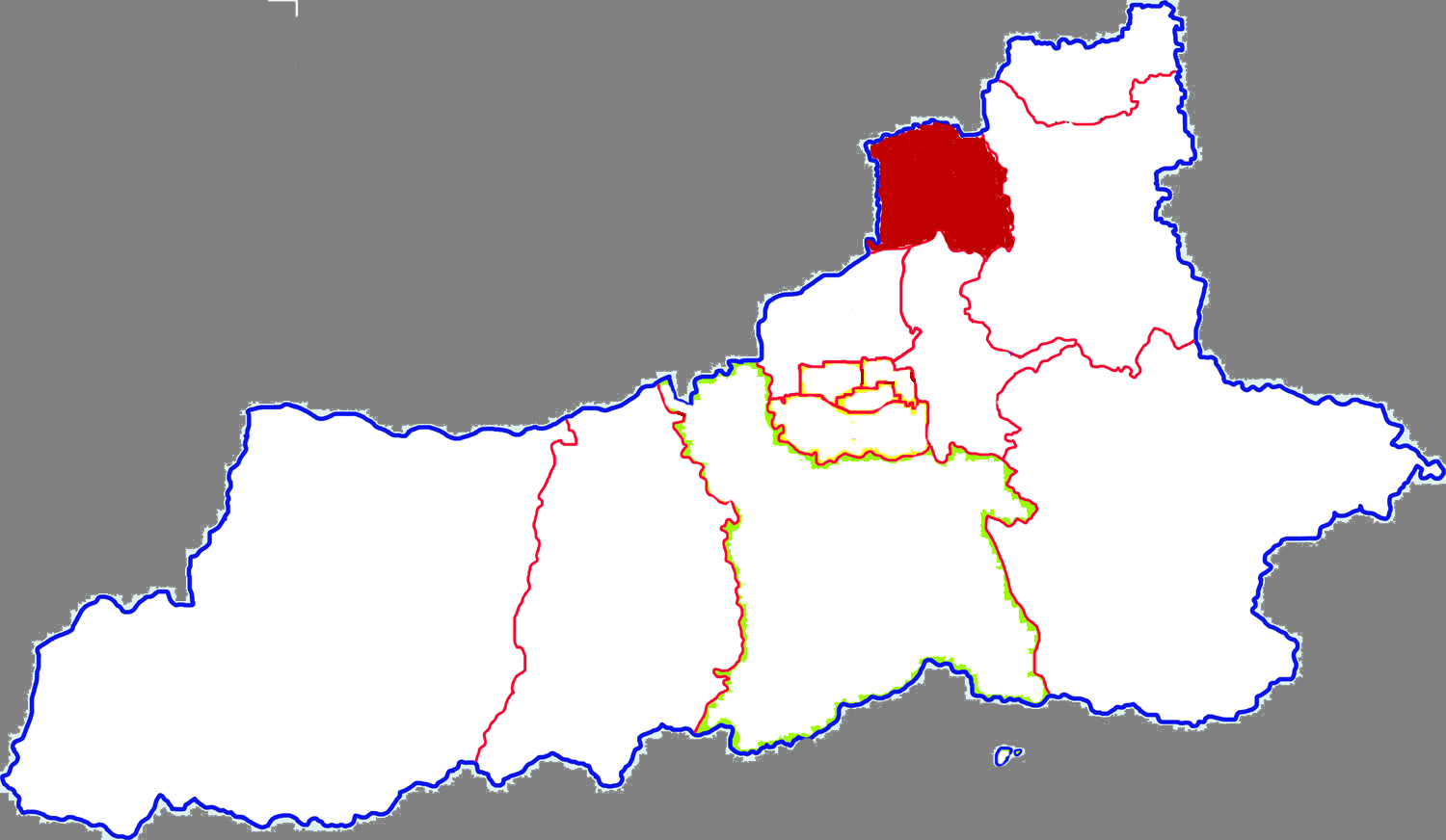 Location of Gaoling district in Xi'an city, China